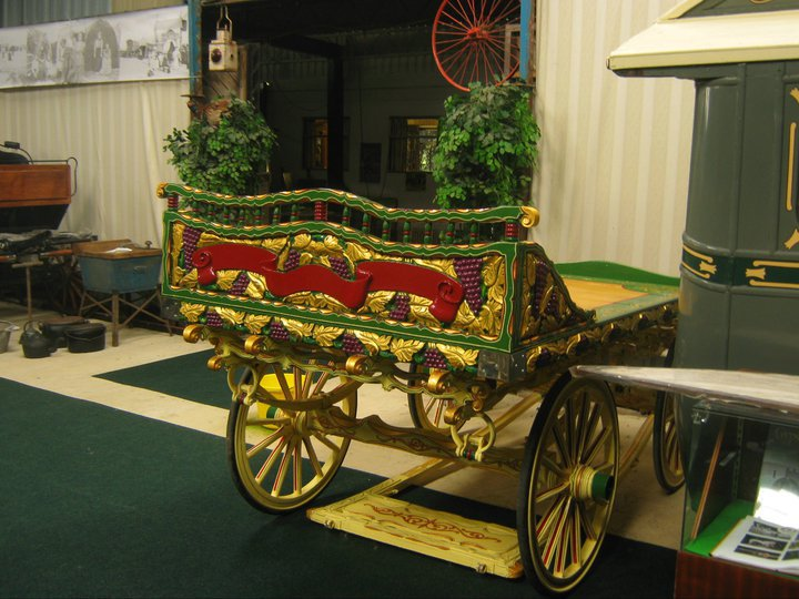 Rumnichal Horse Trotting Cart